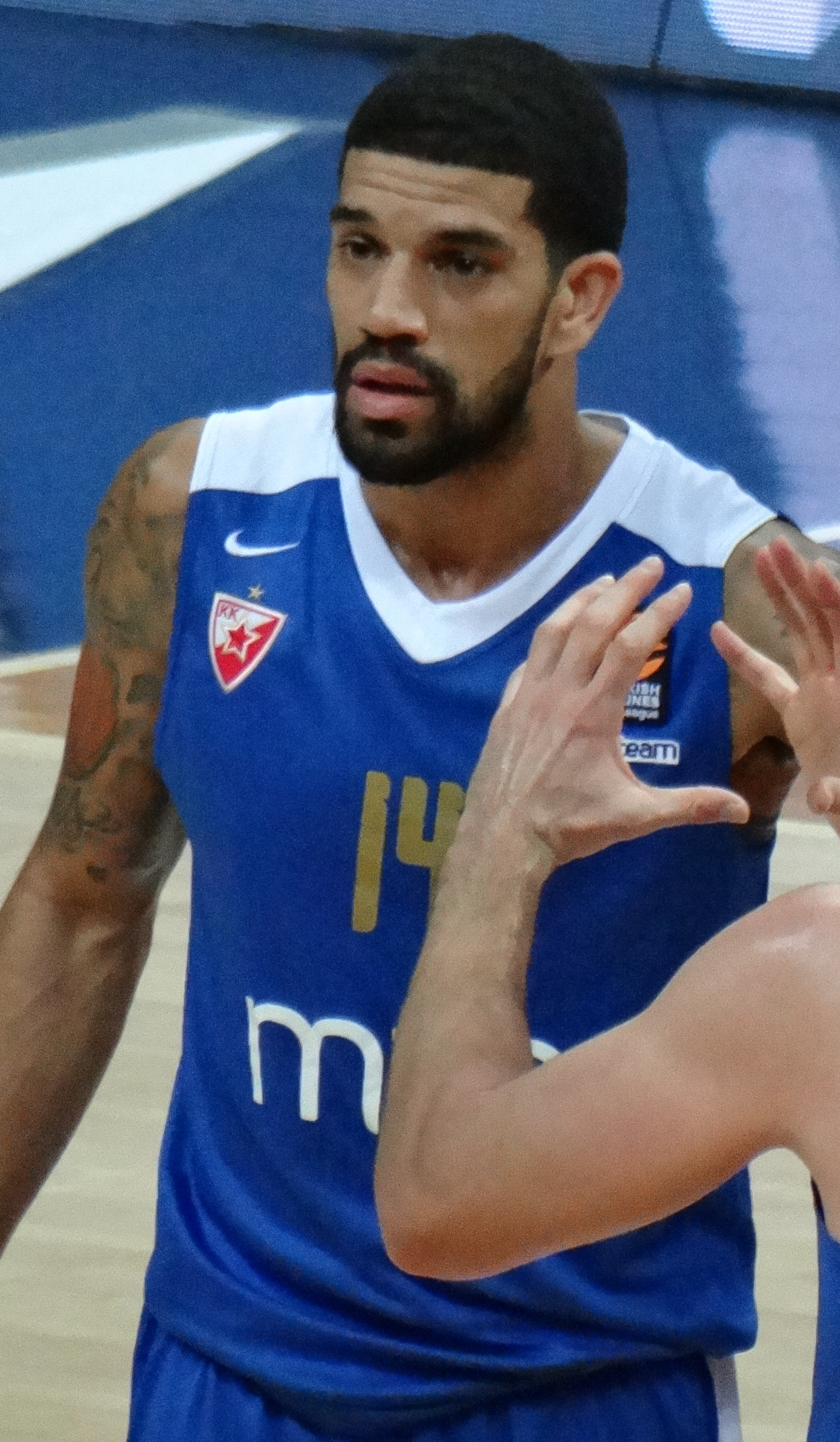 James Feldeine 14 KK Crvena zvezda 20171219